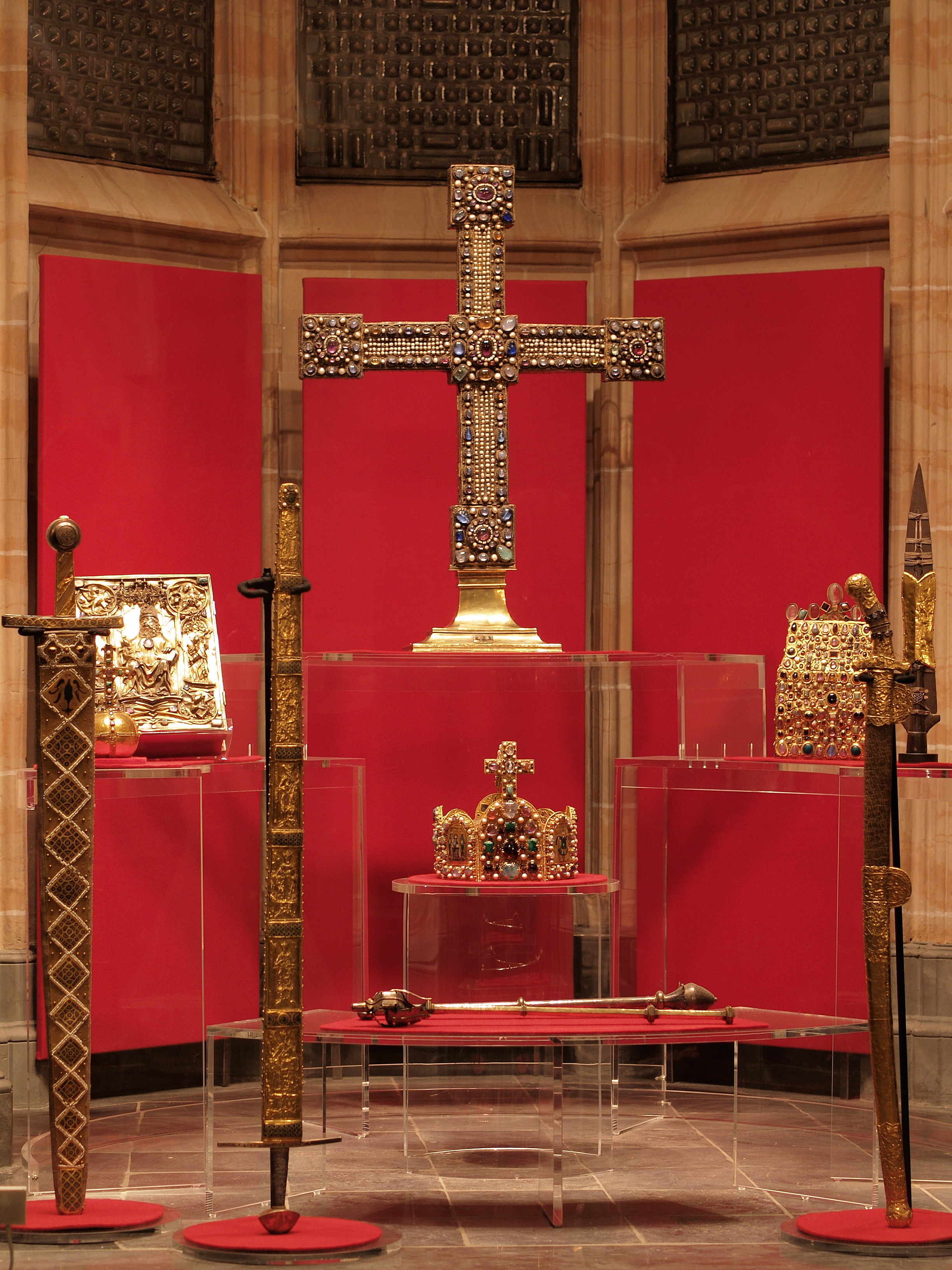 Replicas of the Imperial Regalia of the Holy Roman Empire in the city hall of Aachen, Germany